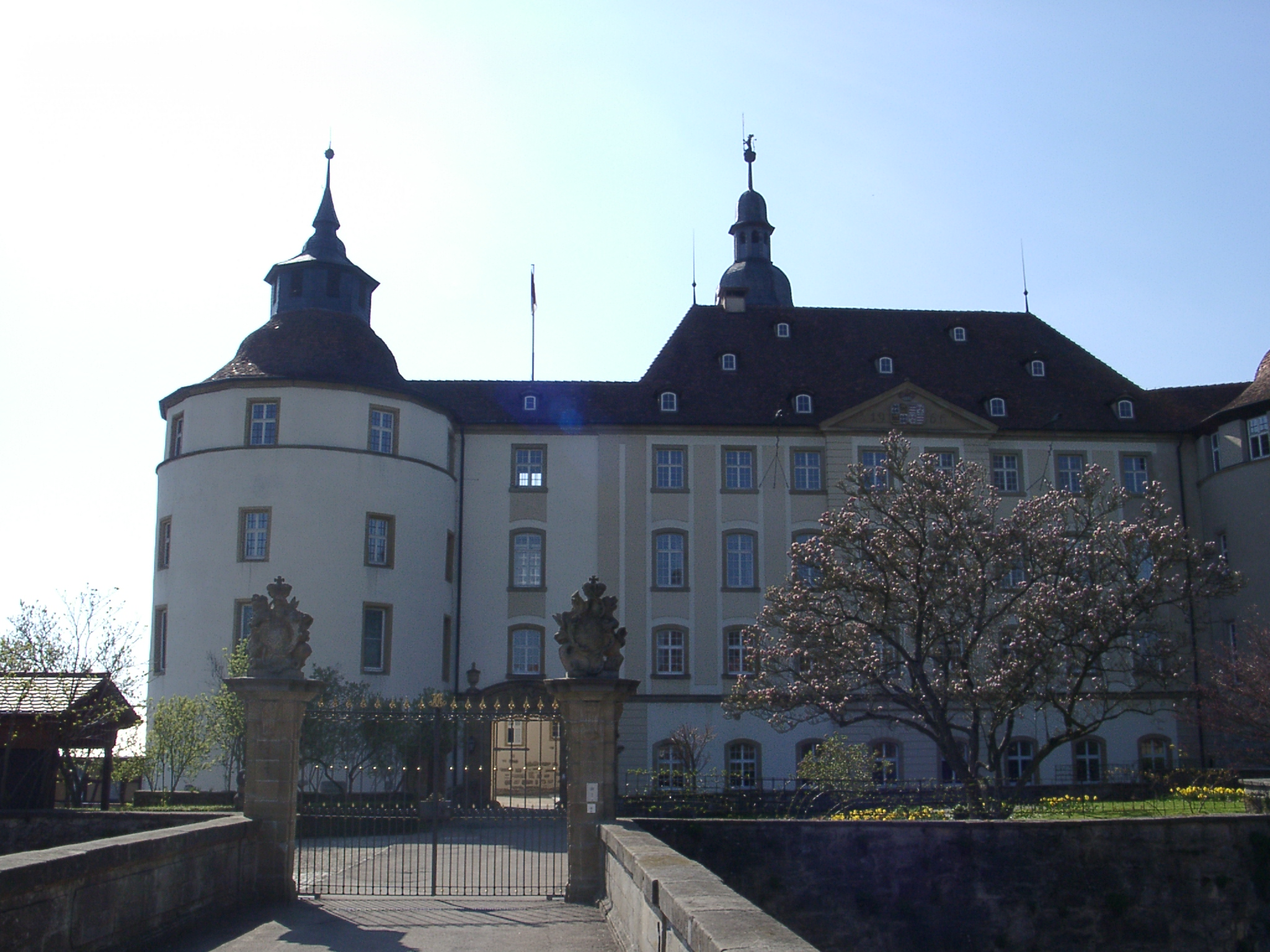 Langenburg castle